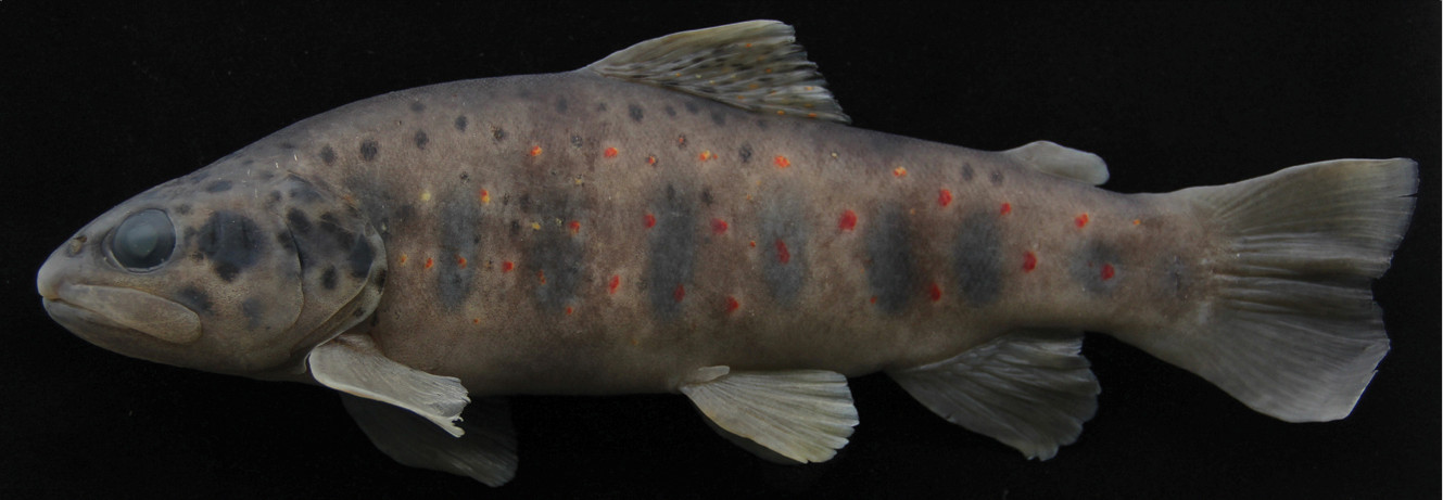 Salmo kottelati - female, 208 mm (Turkey, Antalya Province, Alakir Stream) - Paratype FFR 03181